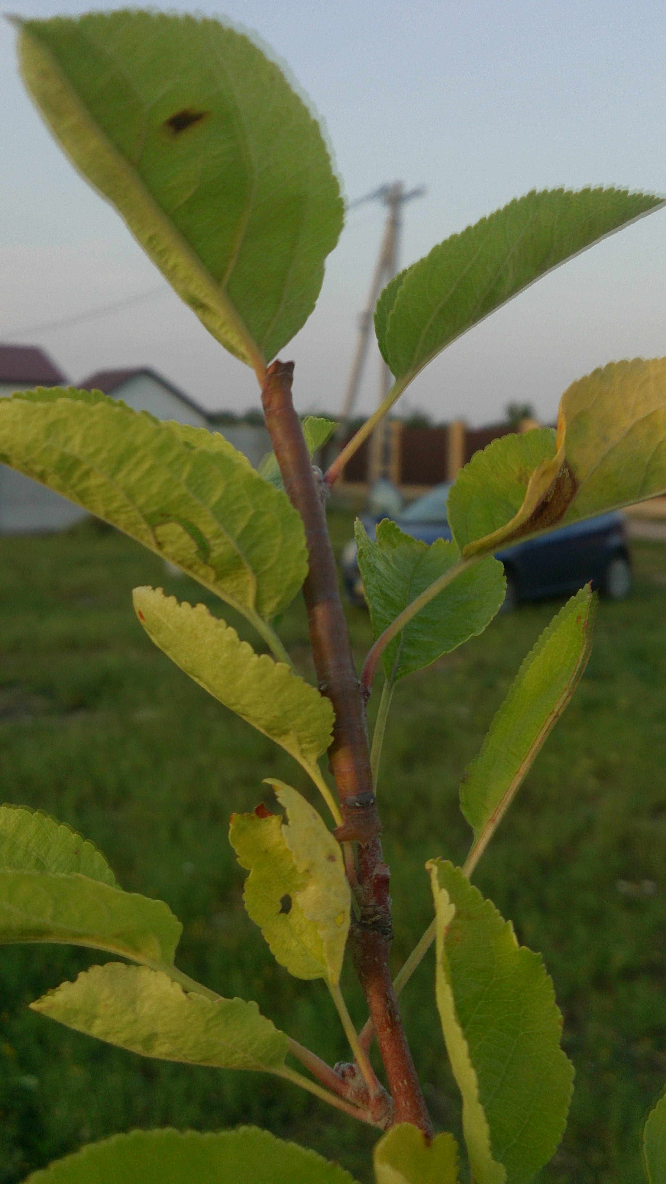 Geometer moth caterpillar on tree. It is hard to see caterpillar even on maximal resolution. Its great example of mimicry.Geometer moth caterpillar on tree.